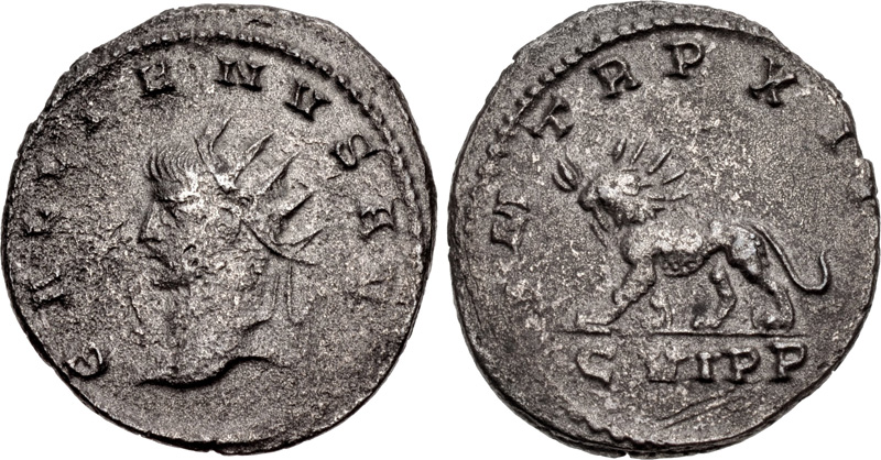 442, Lot: 507. Estimate $150. Sold for $140. This amount does not include the buyer’s fee. Gallienus. AD 253-268. Antoninianus (20mm, 3.44 g, 12h). Antioch mint. Issues 11-12, AD 264-265. GALLIENVS AV[G], radiate head left / P M TR P XII / C VI P P in exergue, radiate lion walking left. MIR 36, 1620f; RIC V (sole reign) 601 var. (bust type); Cunetio –. VF, some silvering, rough surfaces. Extremely rare, only one piece noted by MIR (Alföldi, Studien, pl. 37, 7). Bought from CGB, Paris, 2012. Ex CGB Rome 32 (2012), no. 284685.